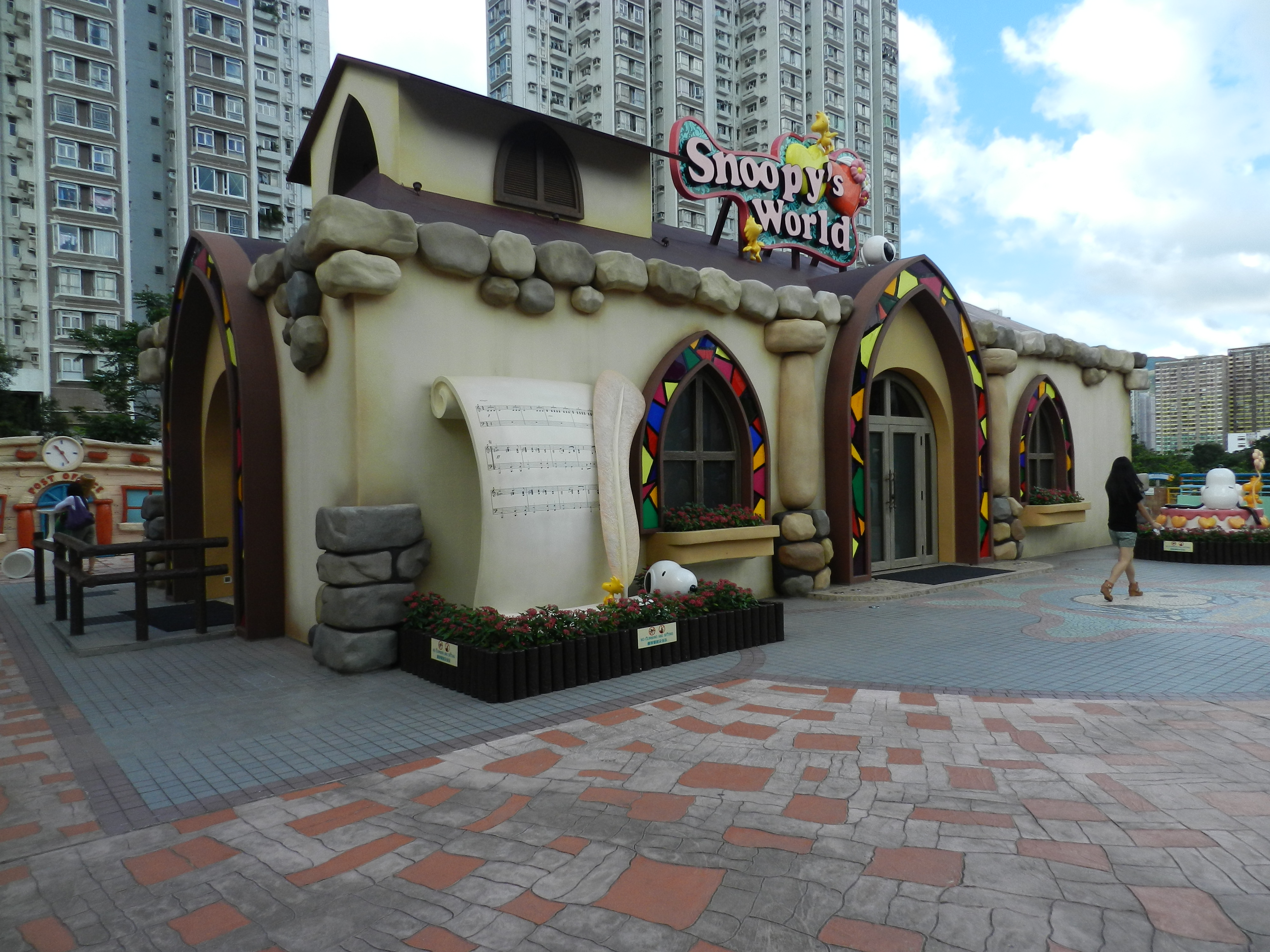 The house in Snoopy World after renovation.